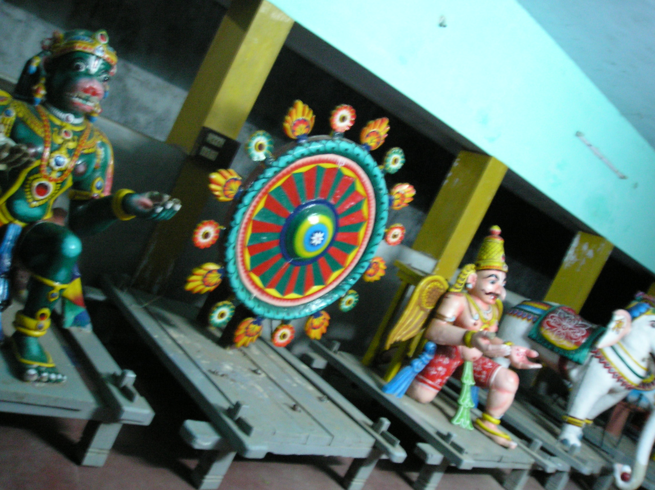 Pictures of Tirukoodalur Jagath Rakshaka Perumal temple